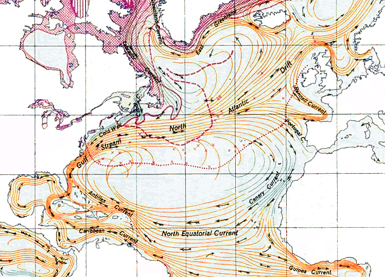 The North Atlantic Gyre, a clockwise-swirling vortex of ocean currents in the Northern Atlantic Ocean